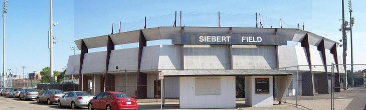 Siebert Field exterior